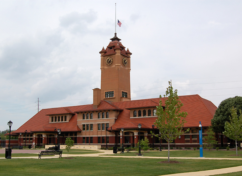 Photograph of Springfield, Illinois, Union Station (Visitor Center), taken June 2007.